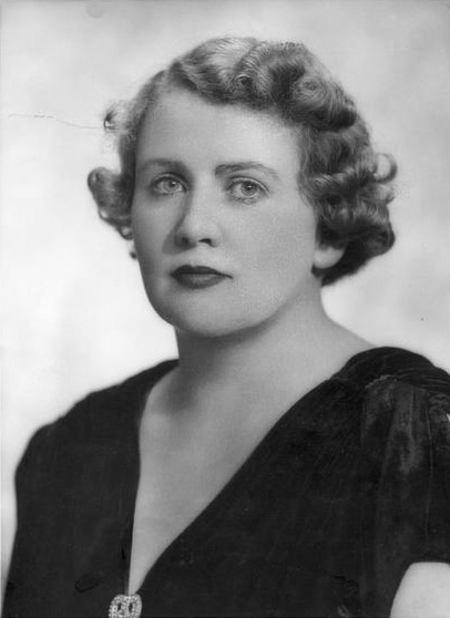 Dorothy Tangney, first woman elected to the Australian Senate